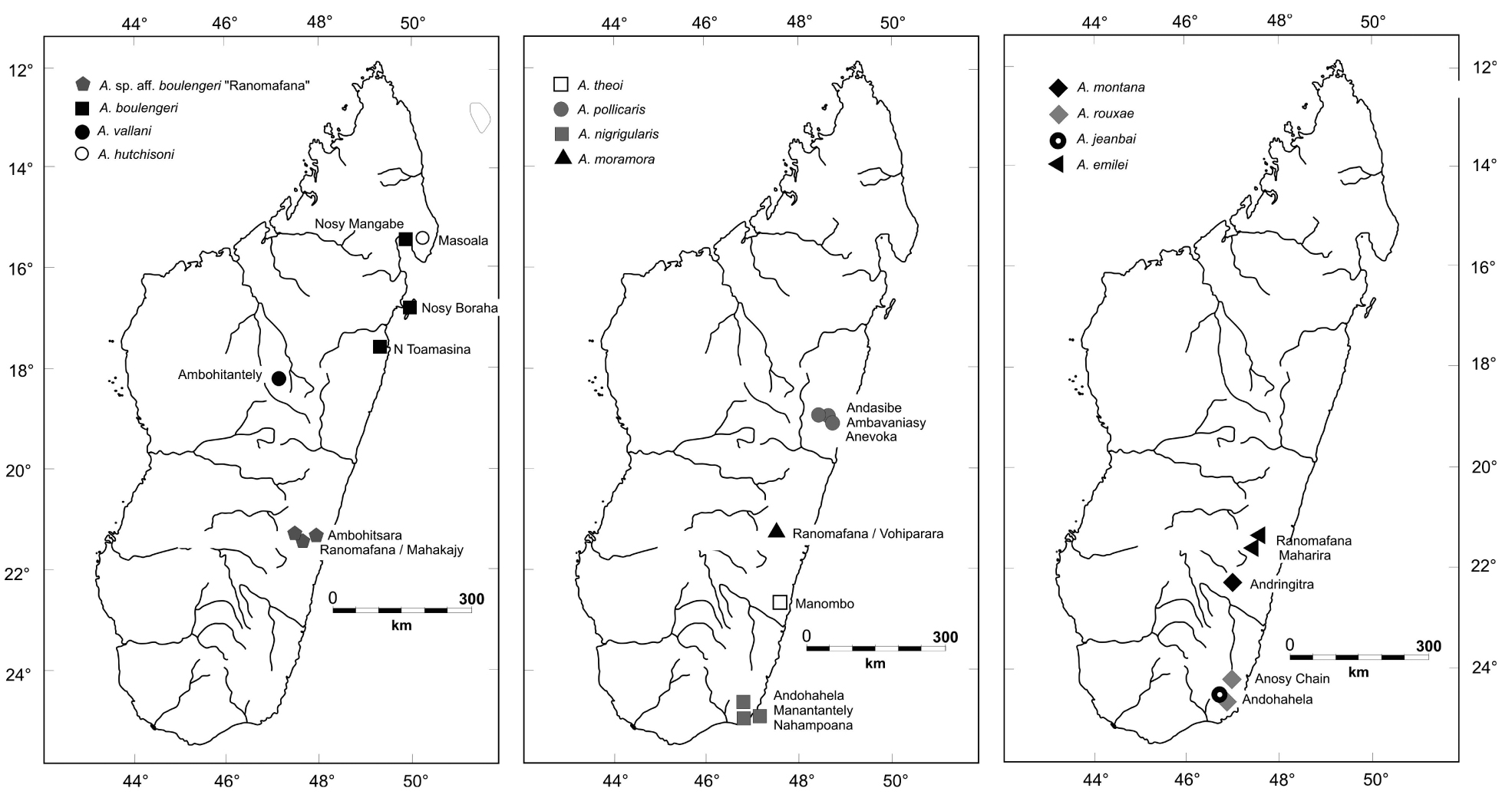 Range map of Anodonthyla